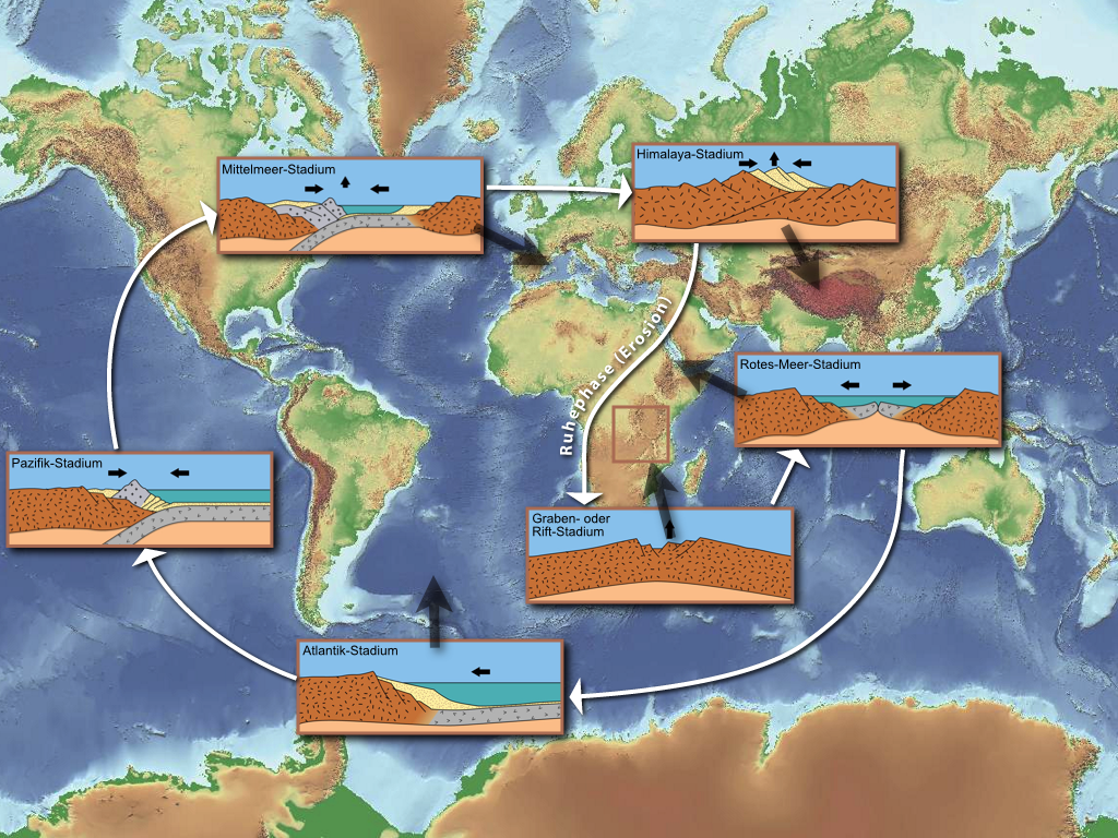 Stages of the Wilson cycle, describing the birth, life and end of an ocean basin or an supercontinent, respectively, exemplified by present-day expressions of plate tectonic processes (German version).